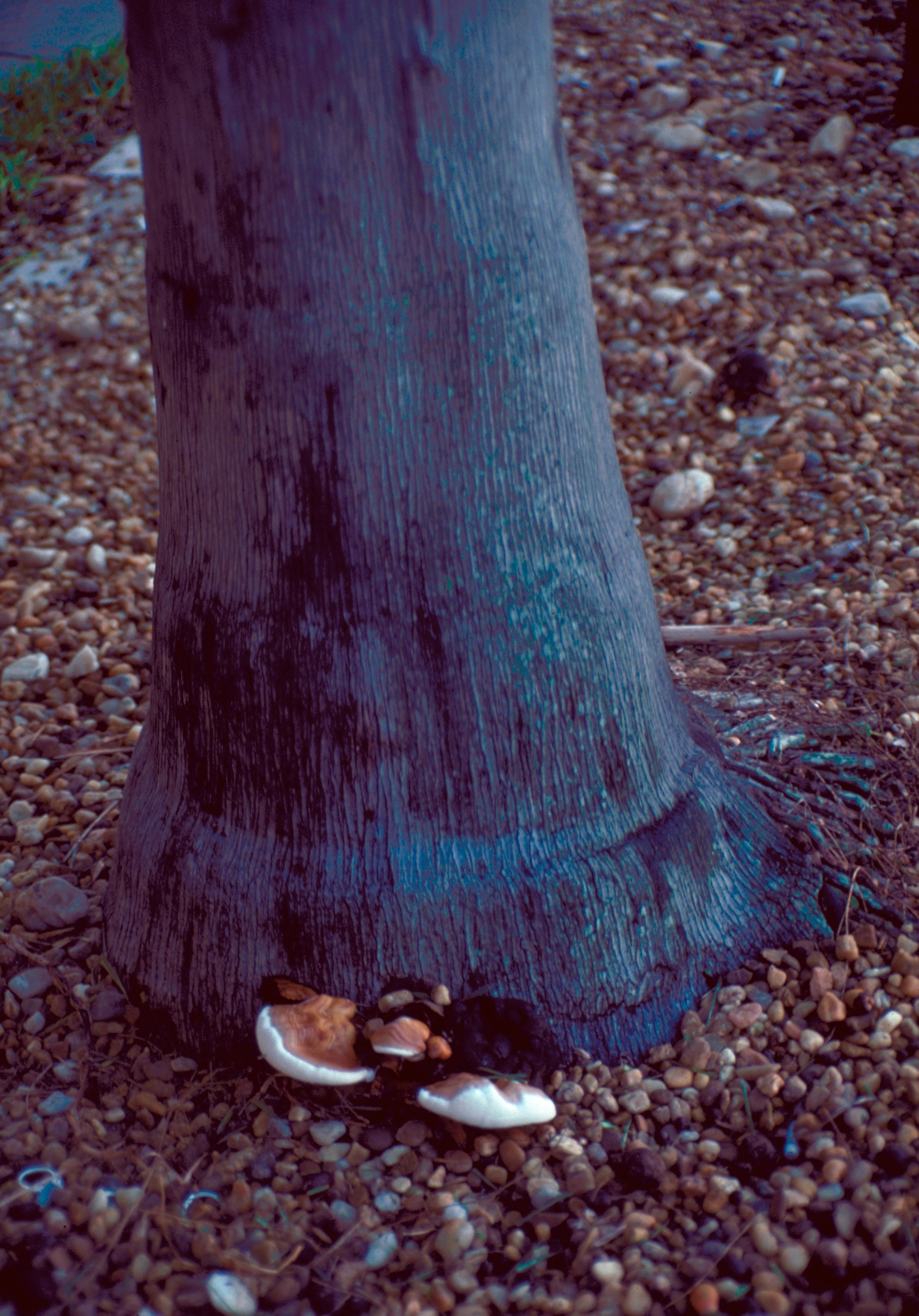 Butt rot of palm being caused by the fungus Ganoderma zonatum